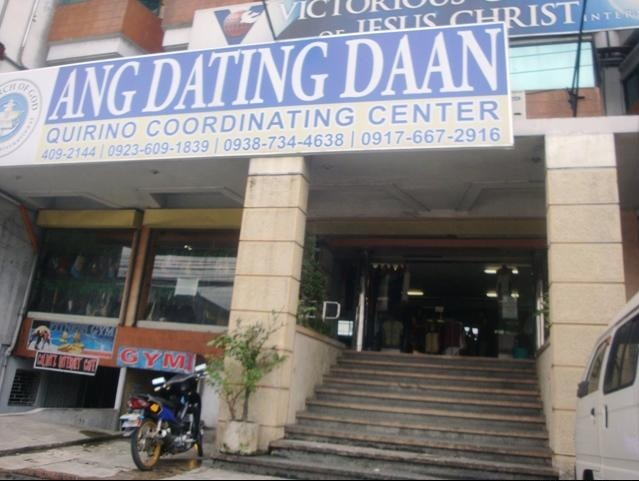 Ang Dating Daan Coordinating Center in Quirino.